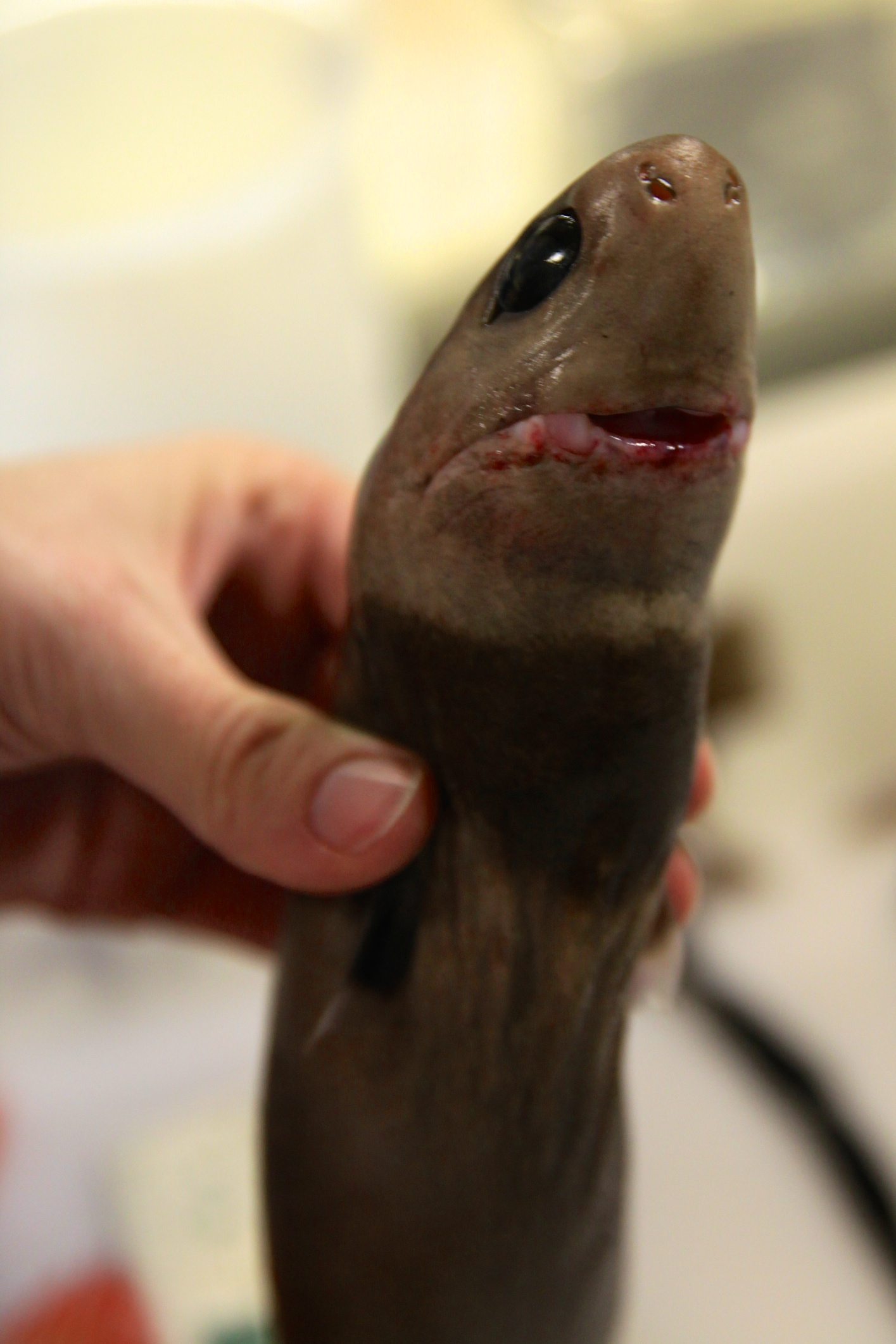 Cookiecutter shark (Isistius brasiliensis)